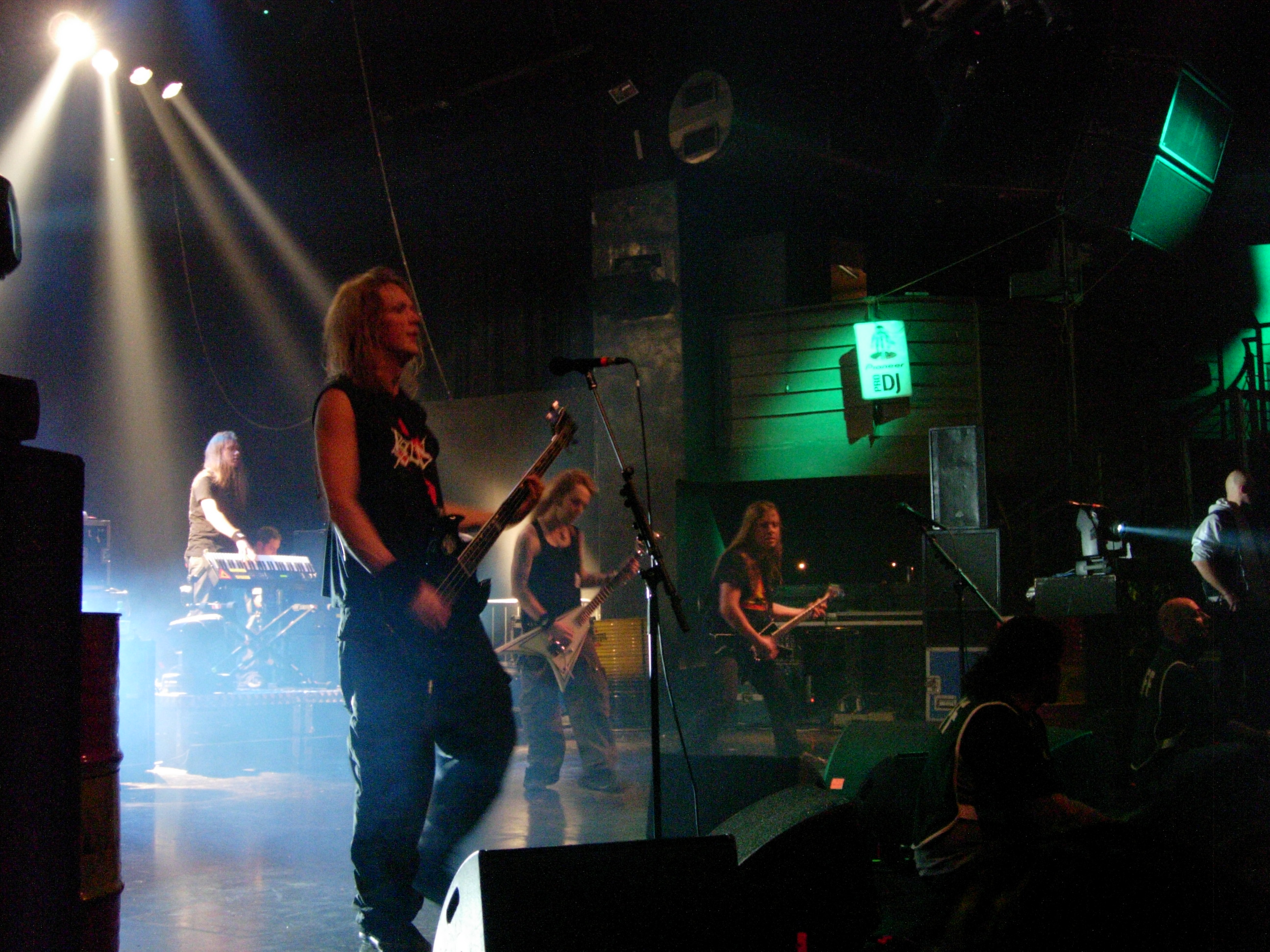 Children Of Bodom live in Milan 2006